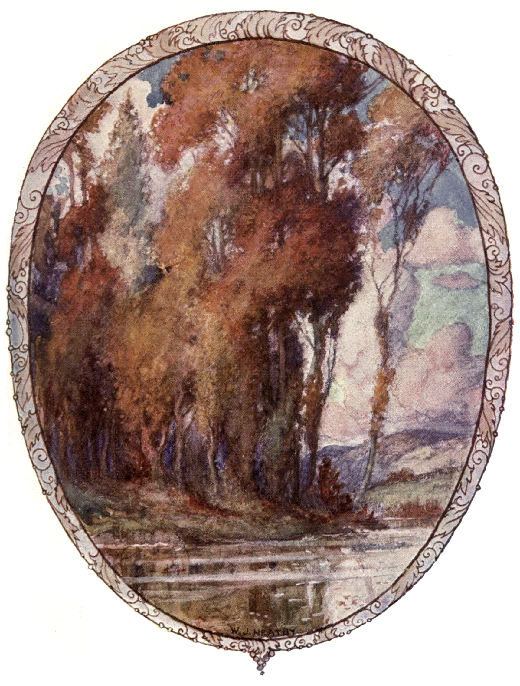 Illustration of poem "To Autumn" by John Keats, painted by W. J. Neatby